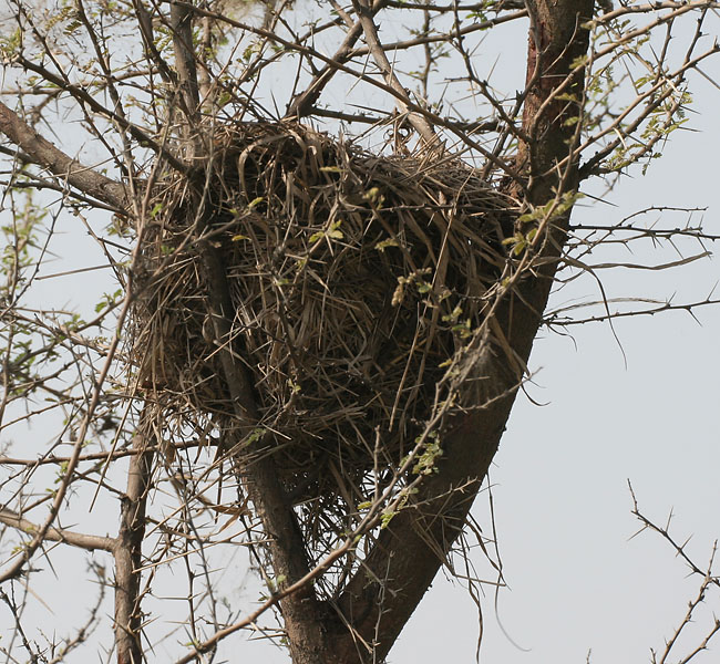 Indian Palm Squirrel (Funambulus palmarum) or Three-Striped Palm Squirrel Funambulus palmarum nest in Hyderabad, India.